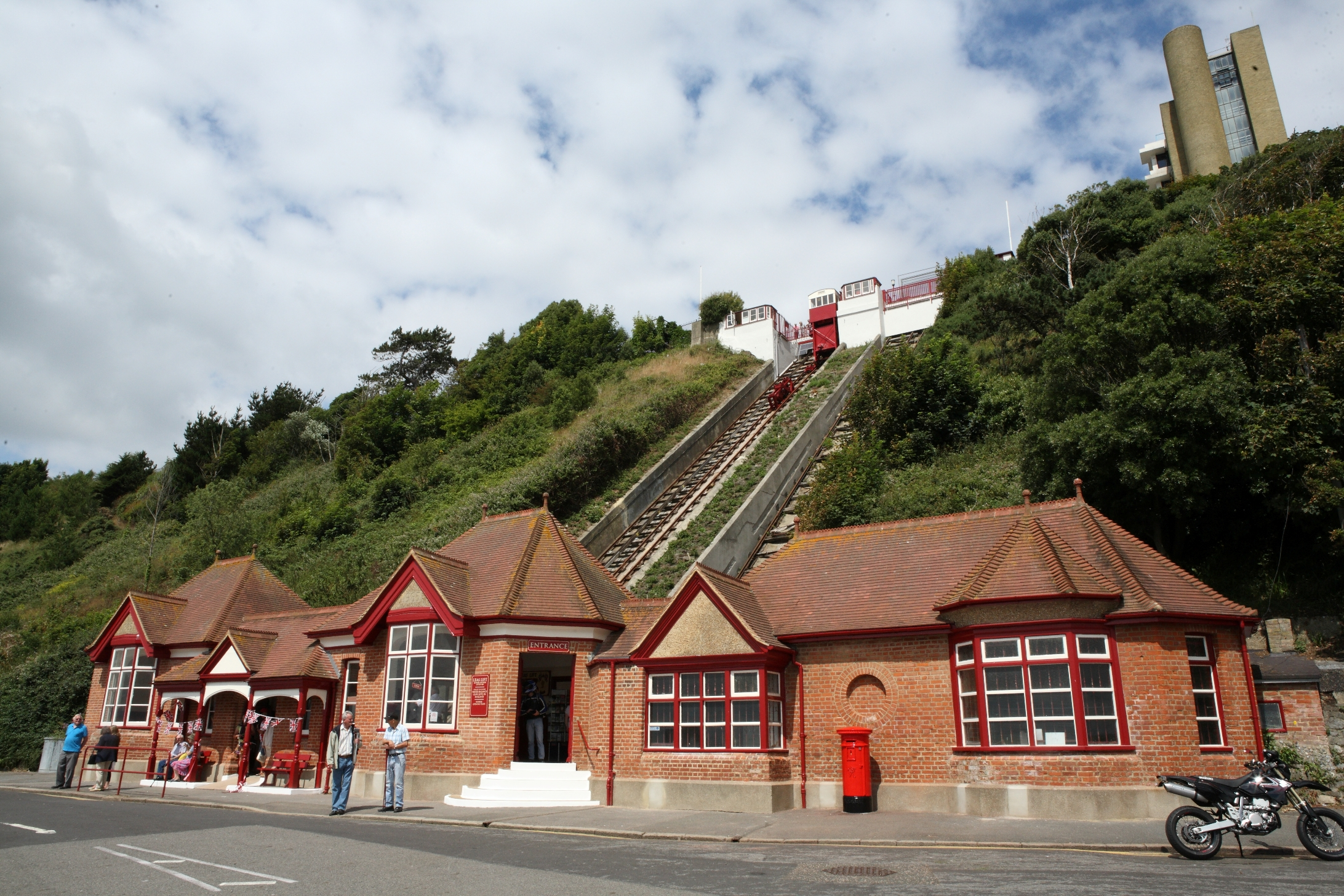 The Leas Lift - Victorian Water Balance Cliff Lift